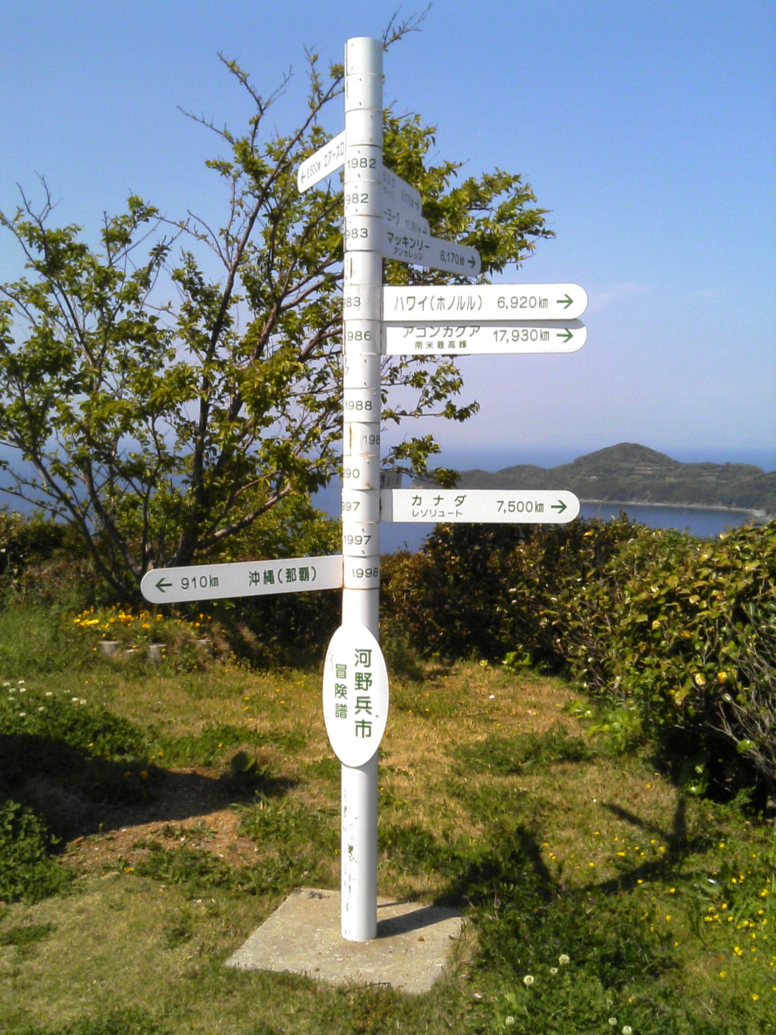 A signpost showing the names, dates, and distances of places traveled to by the late explorer Hyōichi Kōno (河野兵市 Kōno Hyōichi), born in Ikata, Ehime, Japan